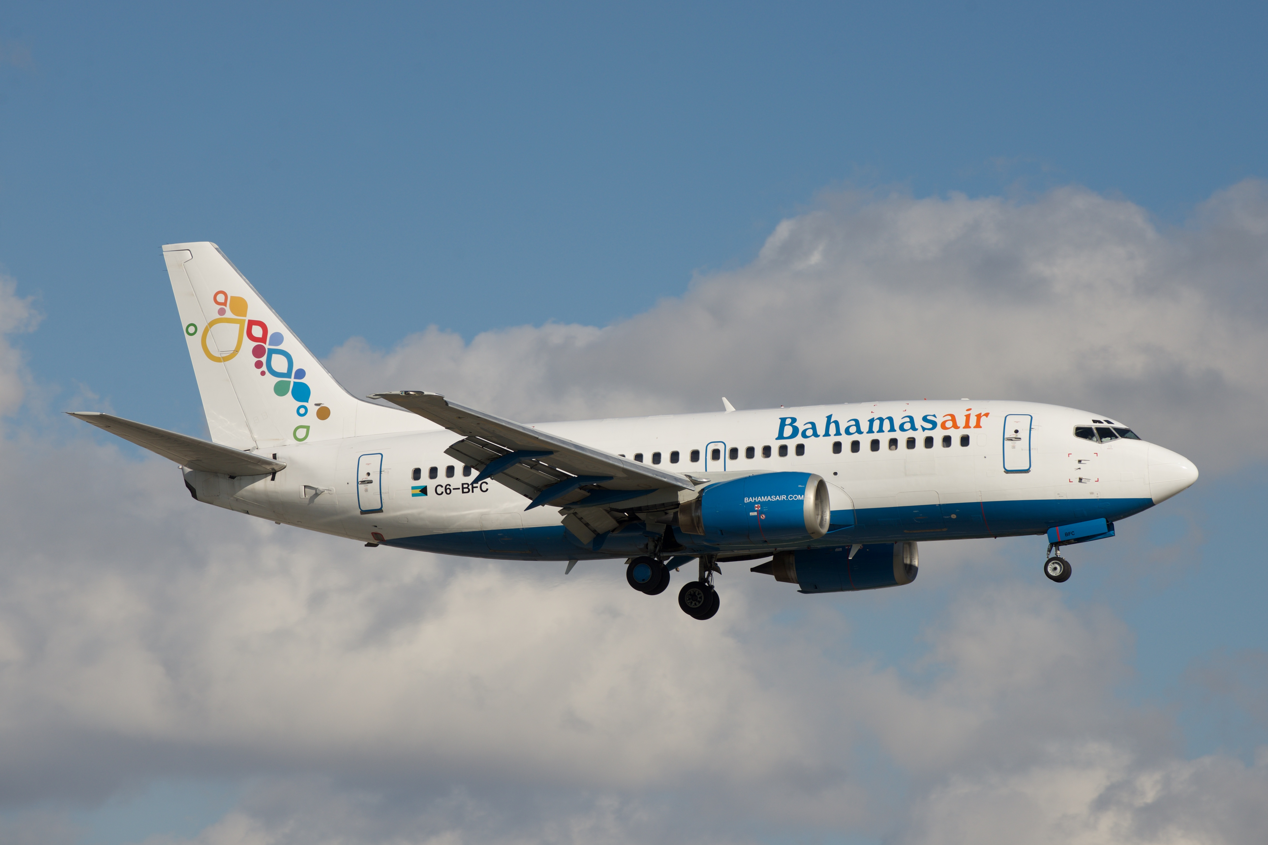 Short Final, MIA